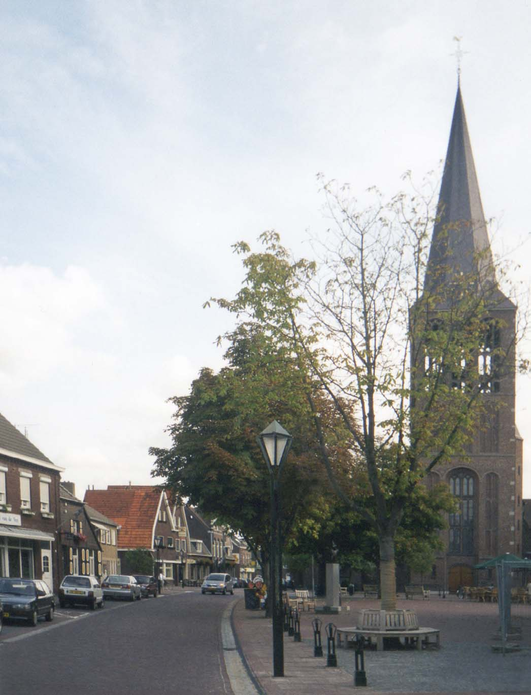 The central area of town in September 1999; view to the East. Snapshot camera 35mm, scanned from print By Gé van Gasteren